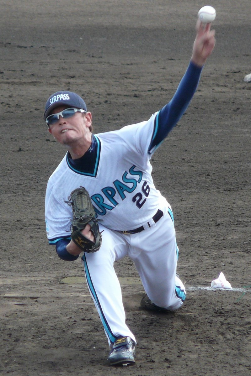 Kosuke Kato, pitcher of the Surpass, at Maishima Baseball Stadium.